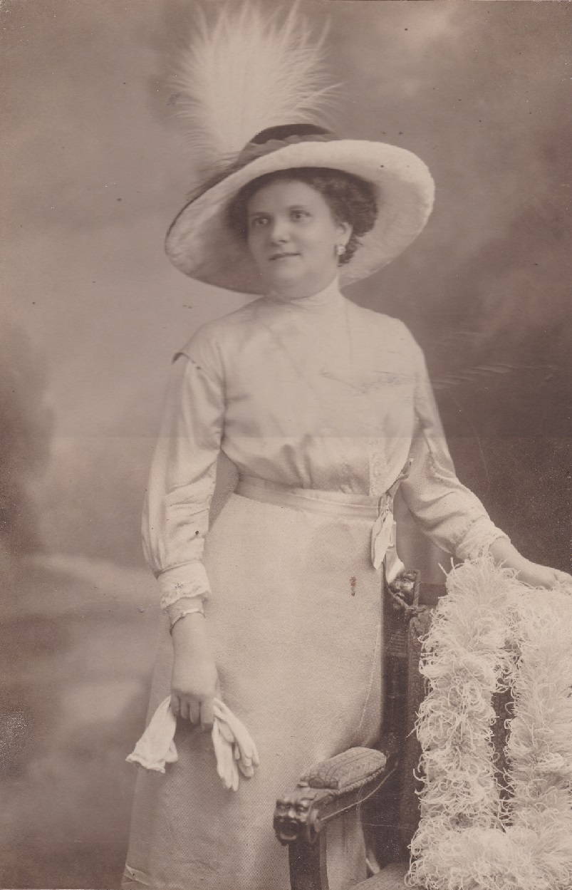 Anna Mária Etelka Gömöry (1874-1946) Hungarian fruit trader, urban palace owner in Budapest, landowner, widow of Gyula Lenz (1848-1910), Hungarian fruit trader. She was the mother of József Lenz (1897-1965), landowner, fruit trader who had a relevant role in Hungary in the time between the two World Wars